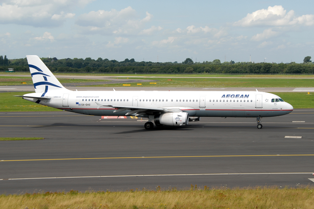 SX-DVO Airbus A321-232 msn 3462 operated by Aegean Airlines and seen at Dusseldorf (DUS/EDDL).